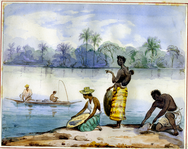 Watercolor of a Gold-Washing Technique, Province of Barbacoas, 1853